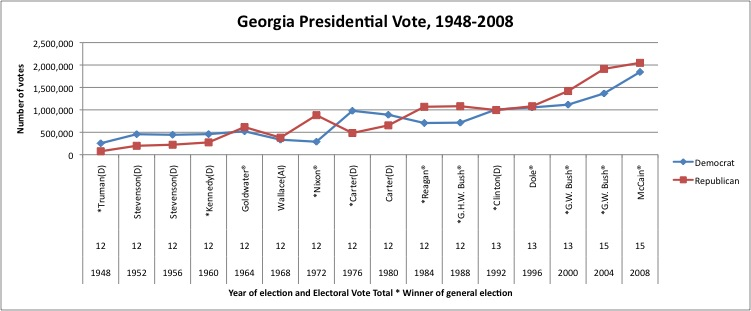 Georgia Presidential Vote Chart, 1948-2008 Source: Federal Election Commission